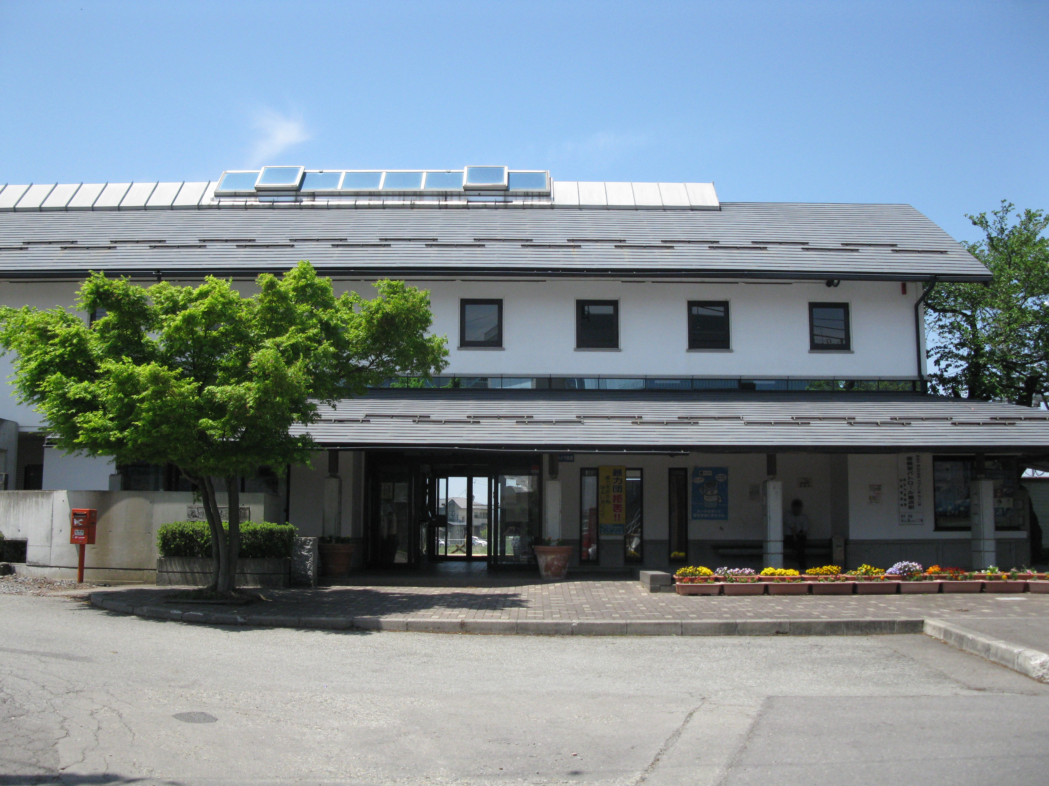 The entrance of Shiokawa Station(East Japan Railway(JR East) Ban'etsu West Line)